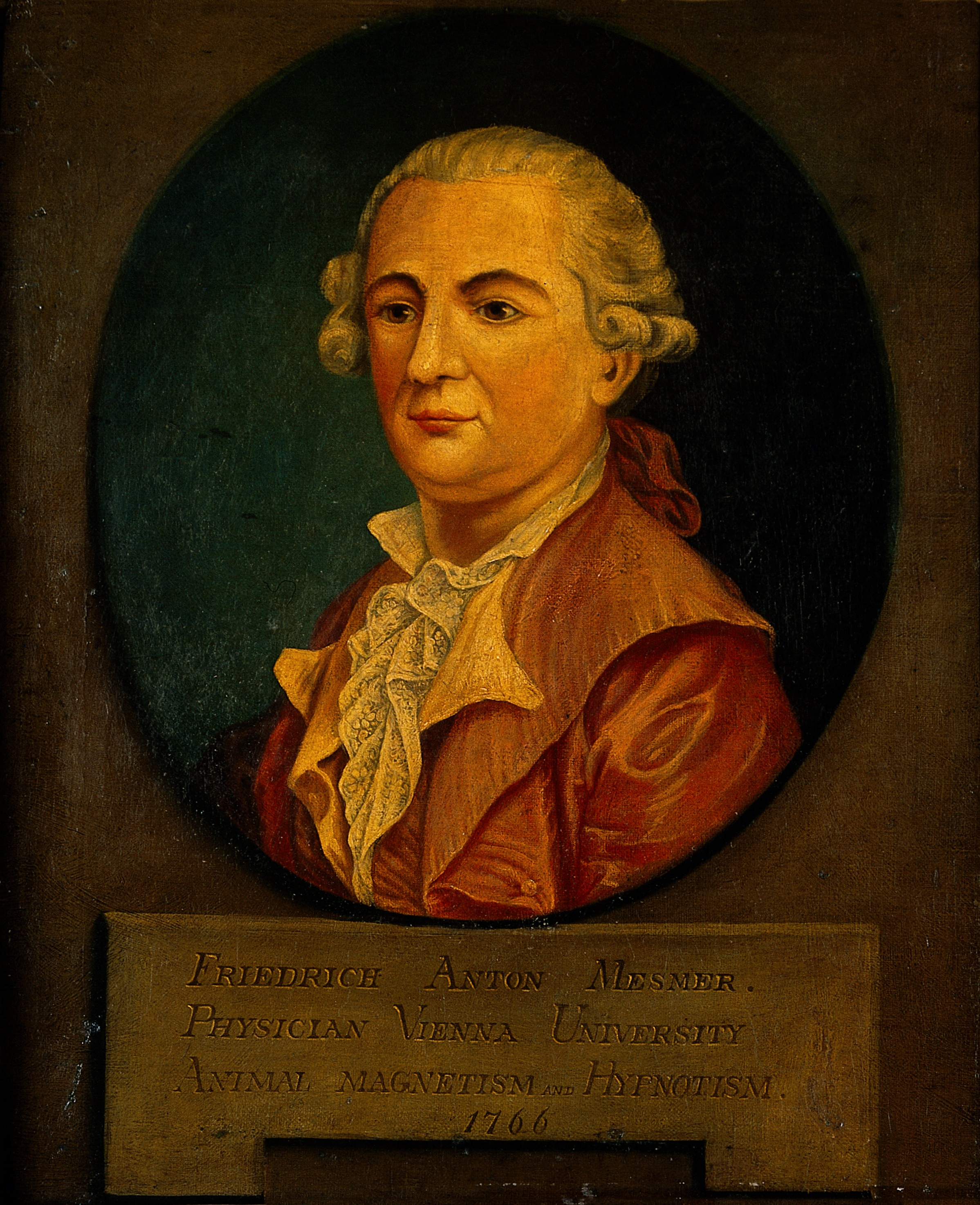 Franz Anton Mesmer. Oil painting. Iconographic Collections